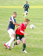 A picture taken during the pre-season match played on 22nd July 2008 between Andover F.C. and Salisbury City F.C. to mark Andover's 125th anniversary.